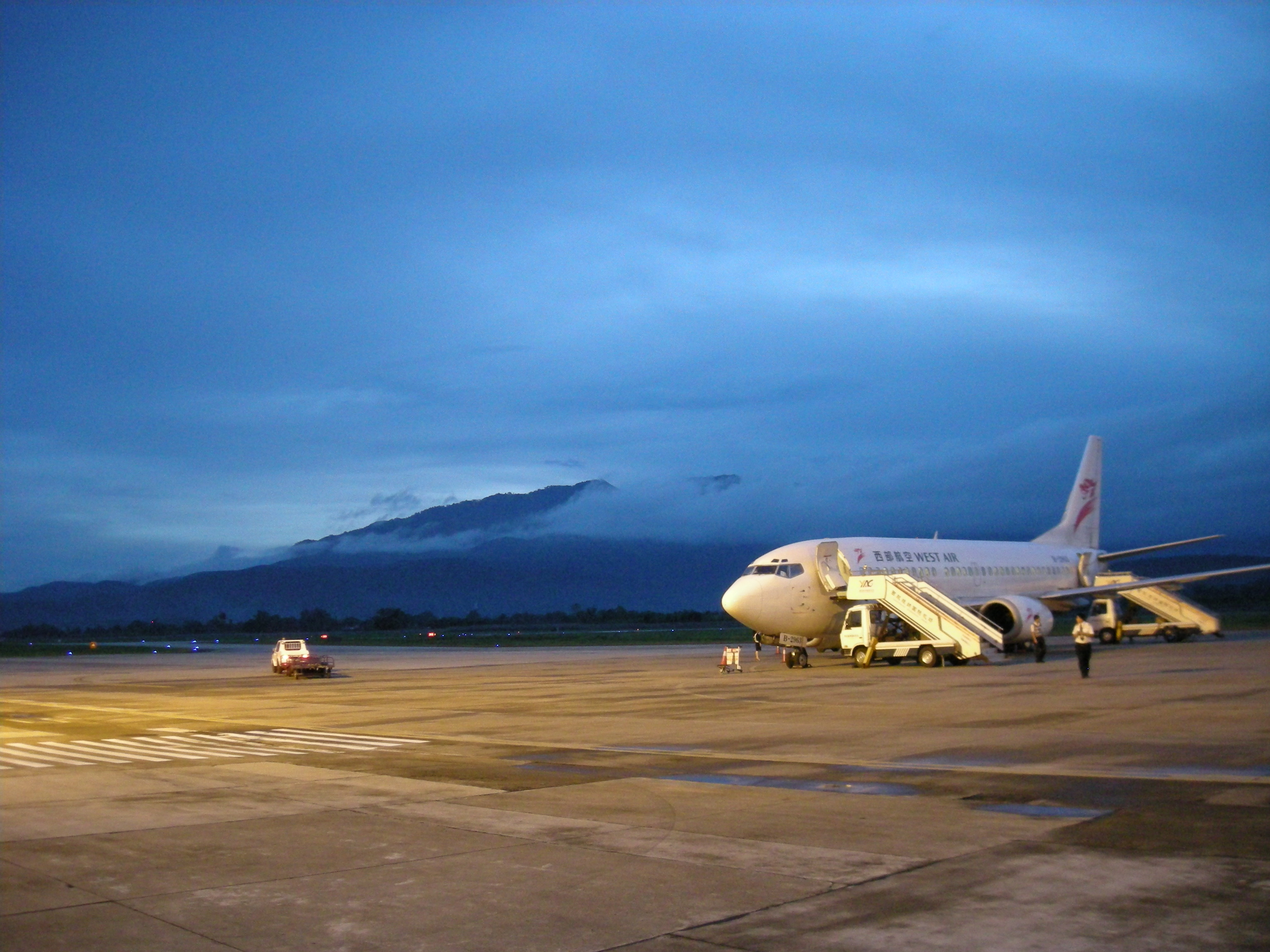 Gasa airport in Jinghong, Xishangbanna, Yunnan, China.